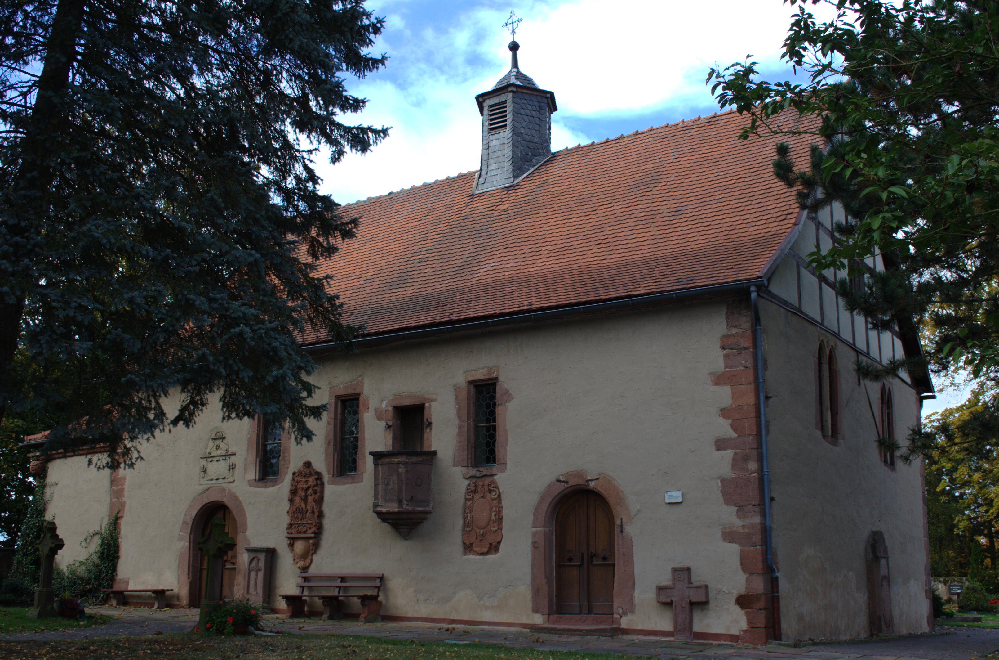 Oldest Querkirche (Church) in Hesse - Sandkirche in Schlitz / Hesse / Germany